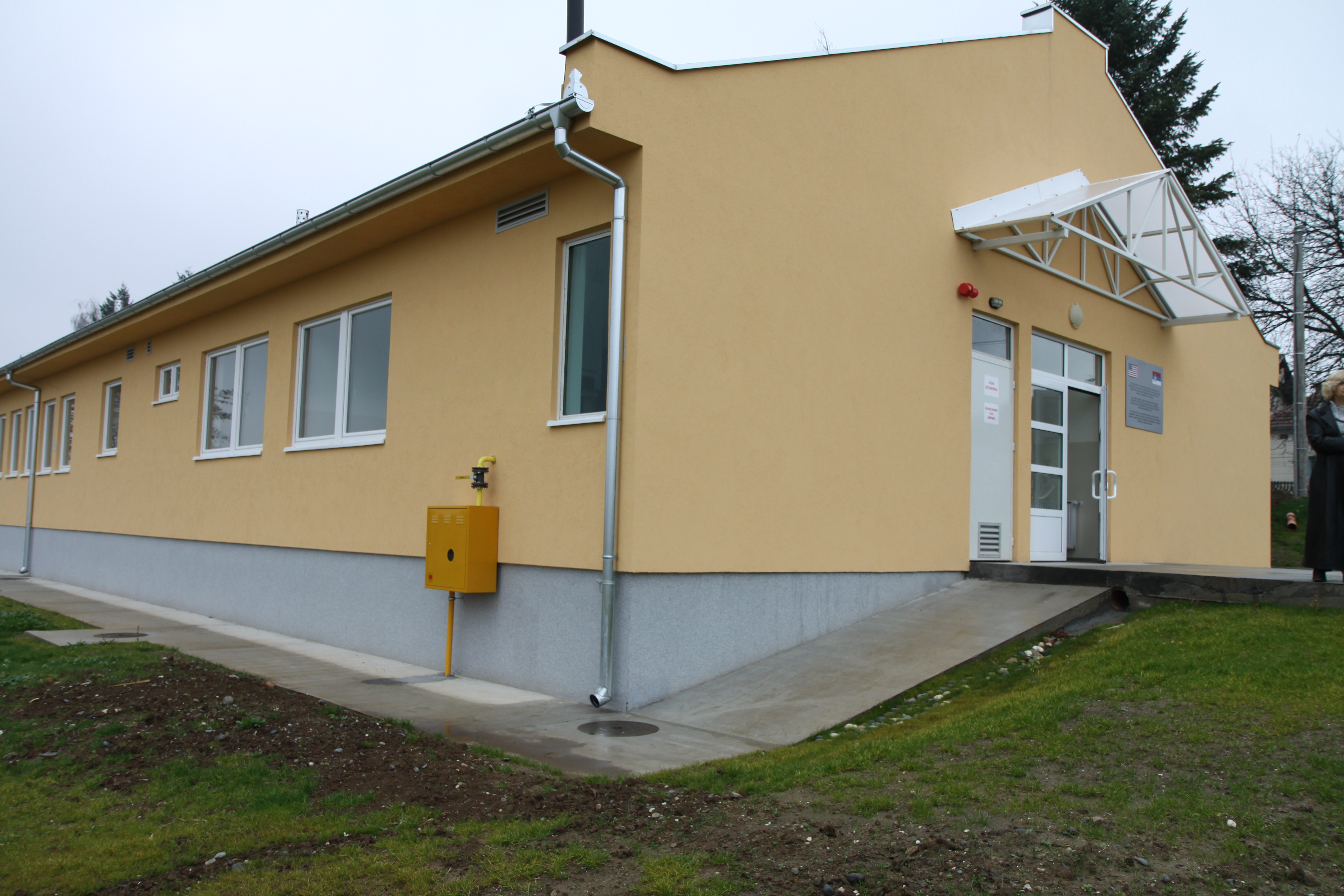 The U.S. Army Corps of Engineers Europe District recently completed a community center for children with special needs in Varvarin, Serbia. The $444,000 project is one of several District-managed construction and renovation projects in the Balkans funded by the U.S. European Command Humanitarian Assistance Program. The center, which took just over a year to complete, provides several work rooms, classrooms, bathrooms and sleeping areas for the children. The building also provides a kitchen, dining room and gymnasium as well as office space for the association, a laundry room, and a small storage room. (U.S. Army Corps of Engineers photo by Carol E. Davis)